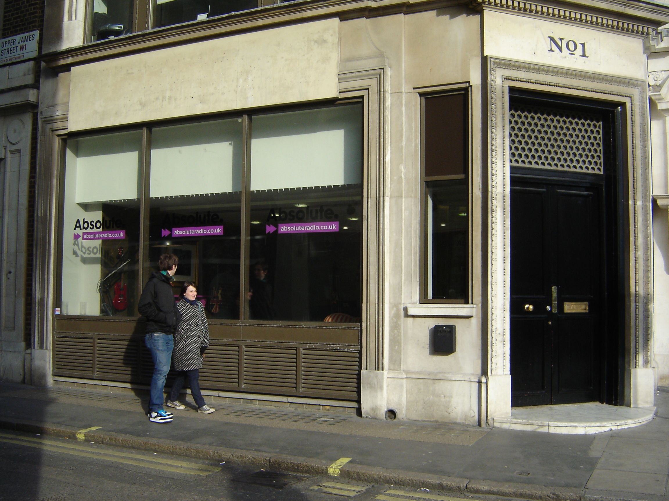 No 1 Golden Square the former home of Virgin Radio now rebranded as Absolute Radio.